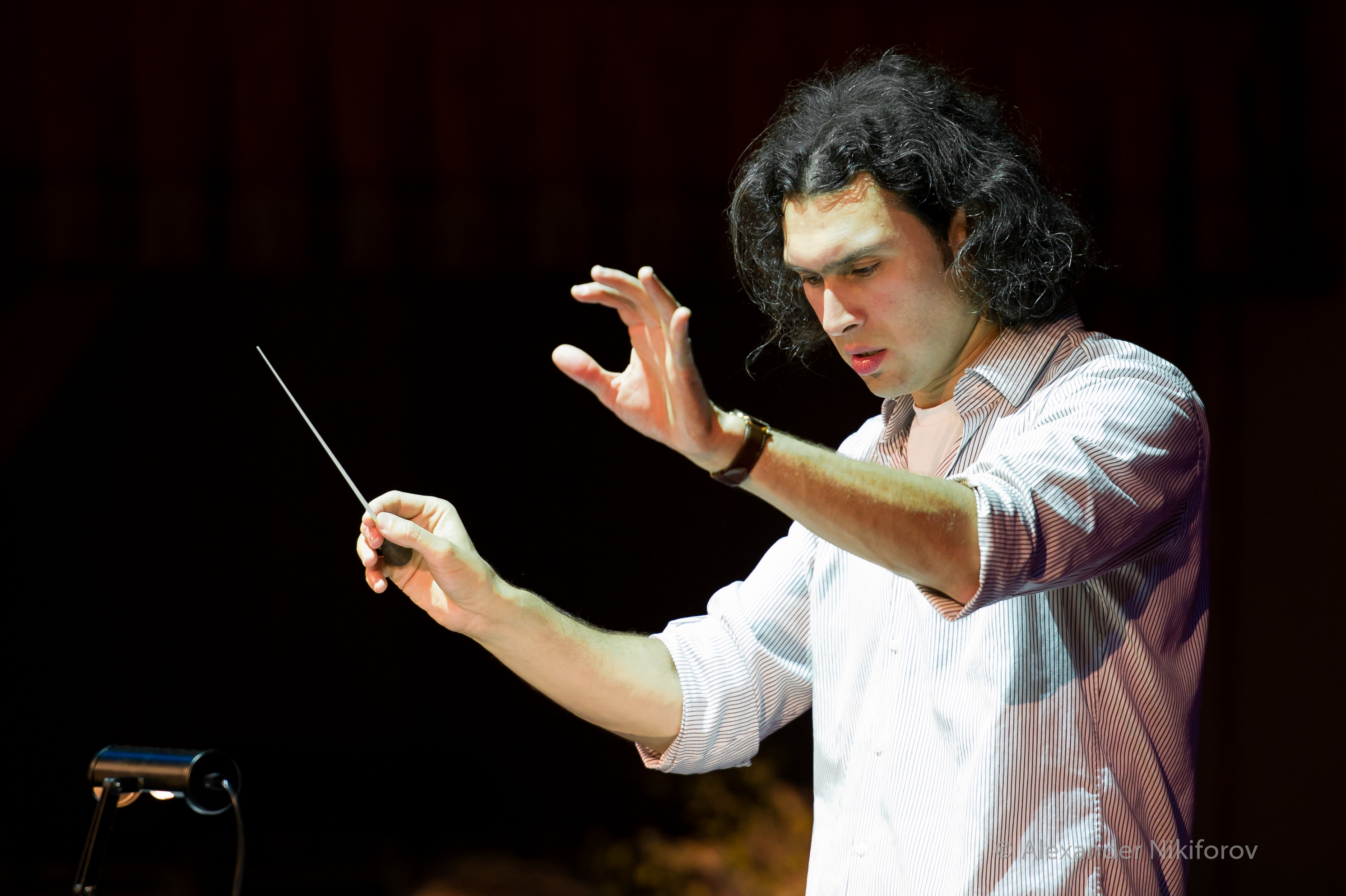 Vladimir Jurowski is a russian conductor.